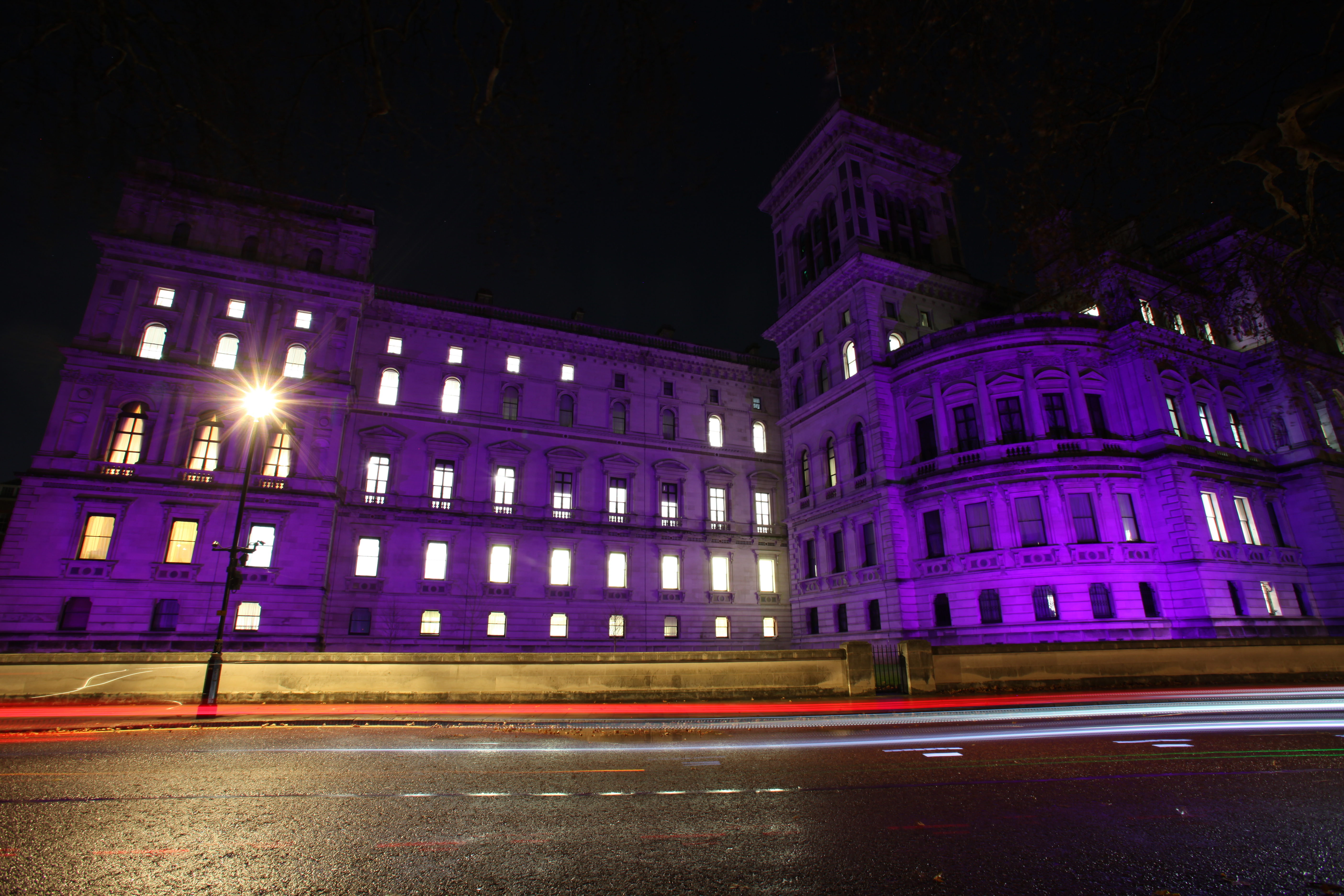 The FCO in London is illuminated in purple in support of International Day of Persons with Disabilities, 3 December 2018.